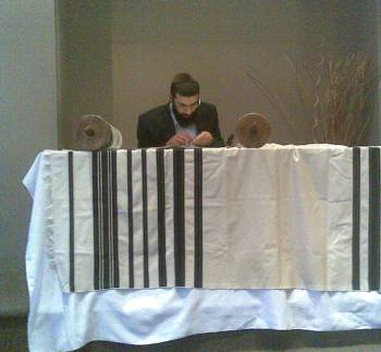 A Sofer finishing the final letters of a Torah scroll